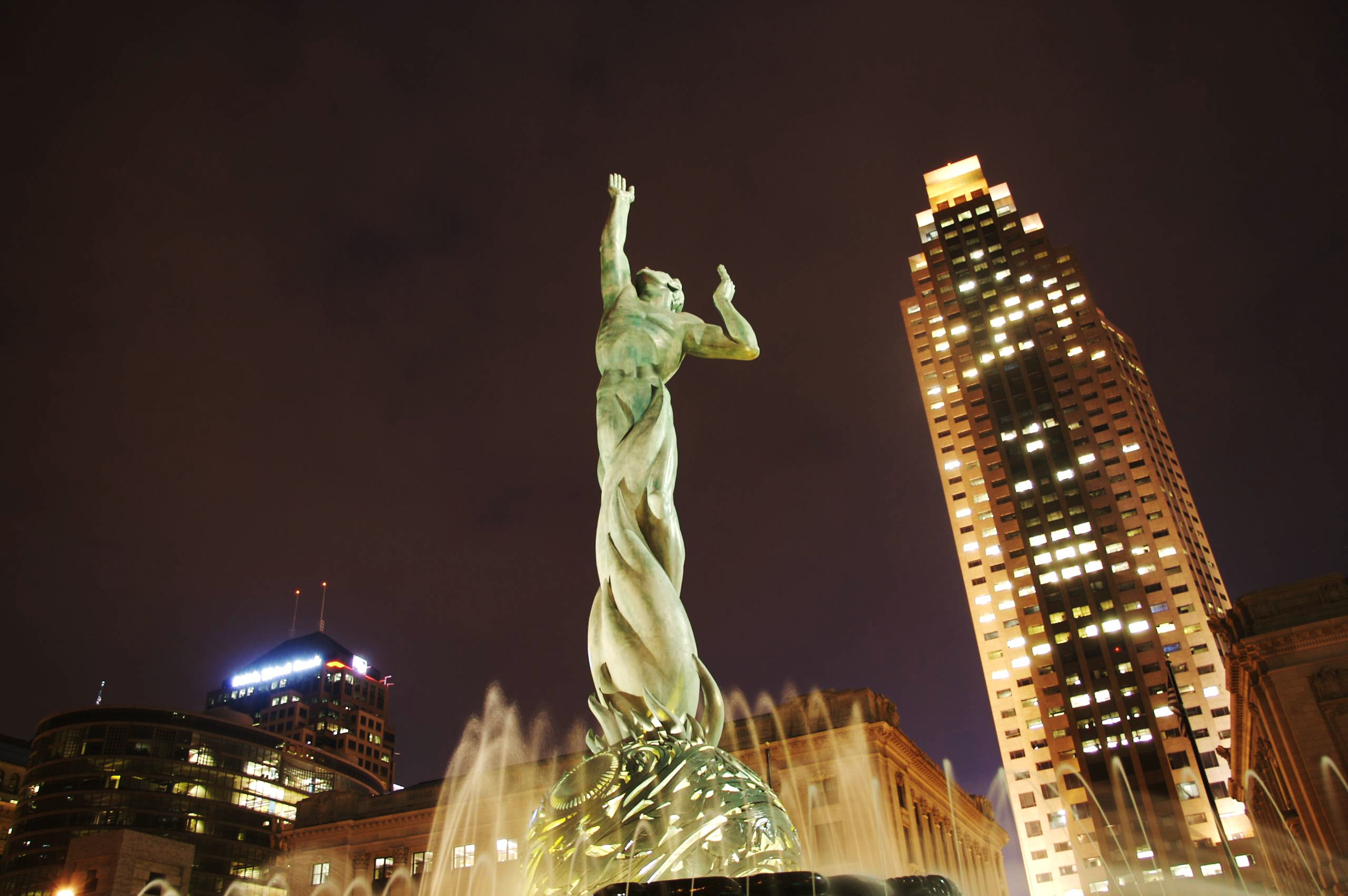 The Fountain of Eternal Life in downtown Cleveland, Ohio, with 200 Public Square in the background. The fountain itself is in the public domain as a case of PD-US-no notice hey! is there a ninja up there?